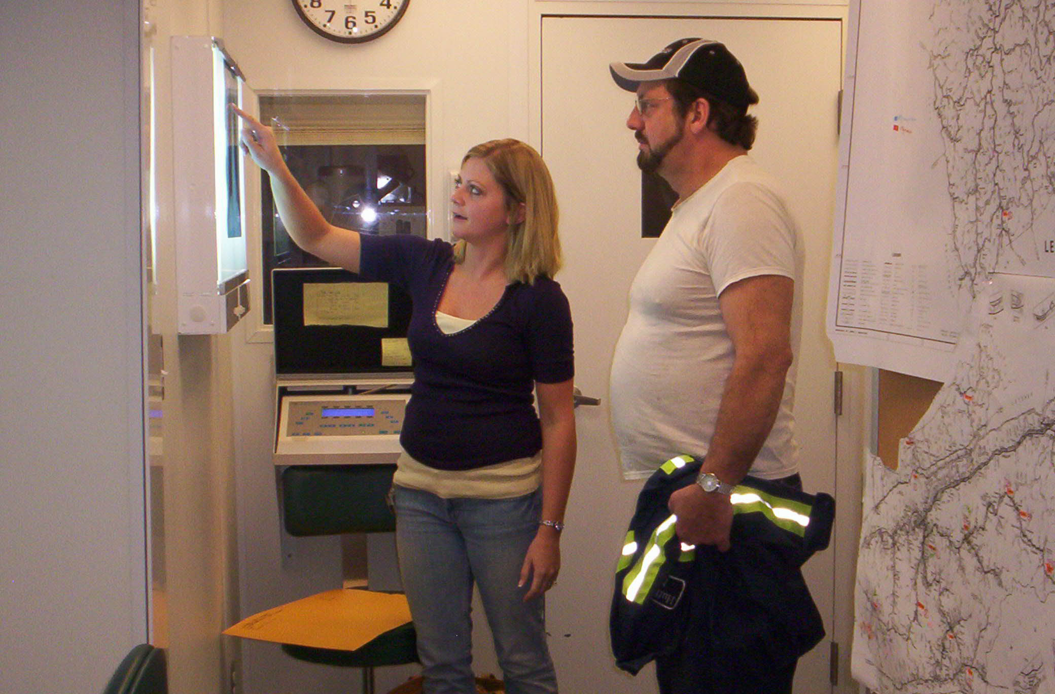 X-ray tech explaining the basics of a chest x-ray to a coal miner in Harlan County, KY as part of the Enhanced Coal Workers' Health Surveillance Program (black lung screening).